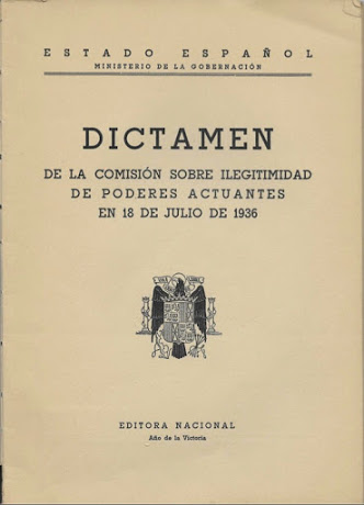 Title pages of Dictamen de la Comisión sobre ilegitimidad de poderes actuantes en 18 de julio de 1936